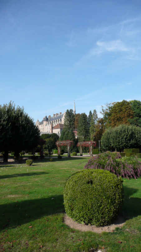 View of Lapalisse (France)